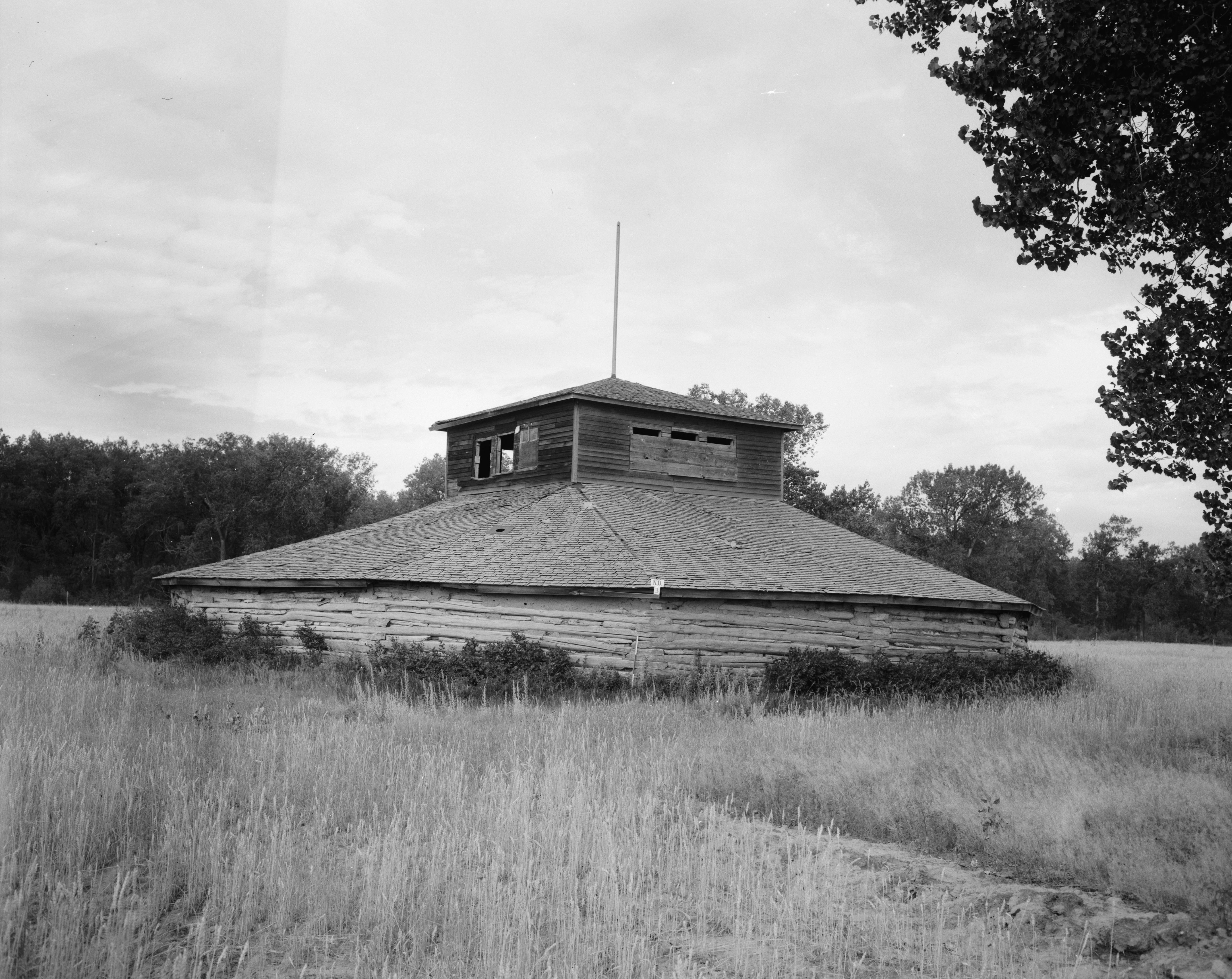 Mandan dance lodge near Elbowoods, McLean County, North Dakota. Built 1923. From the Historic American Engineering Record collection, Library of Congress.